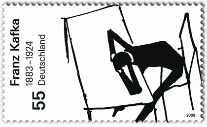 Stamp of Deutsche Post AG, 125 Birth of Franz Kafka (1883-1924)